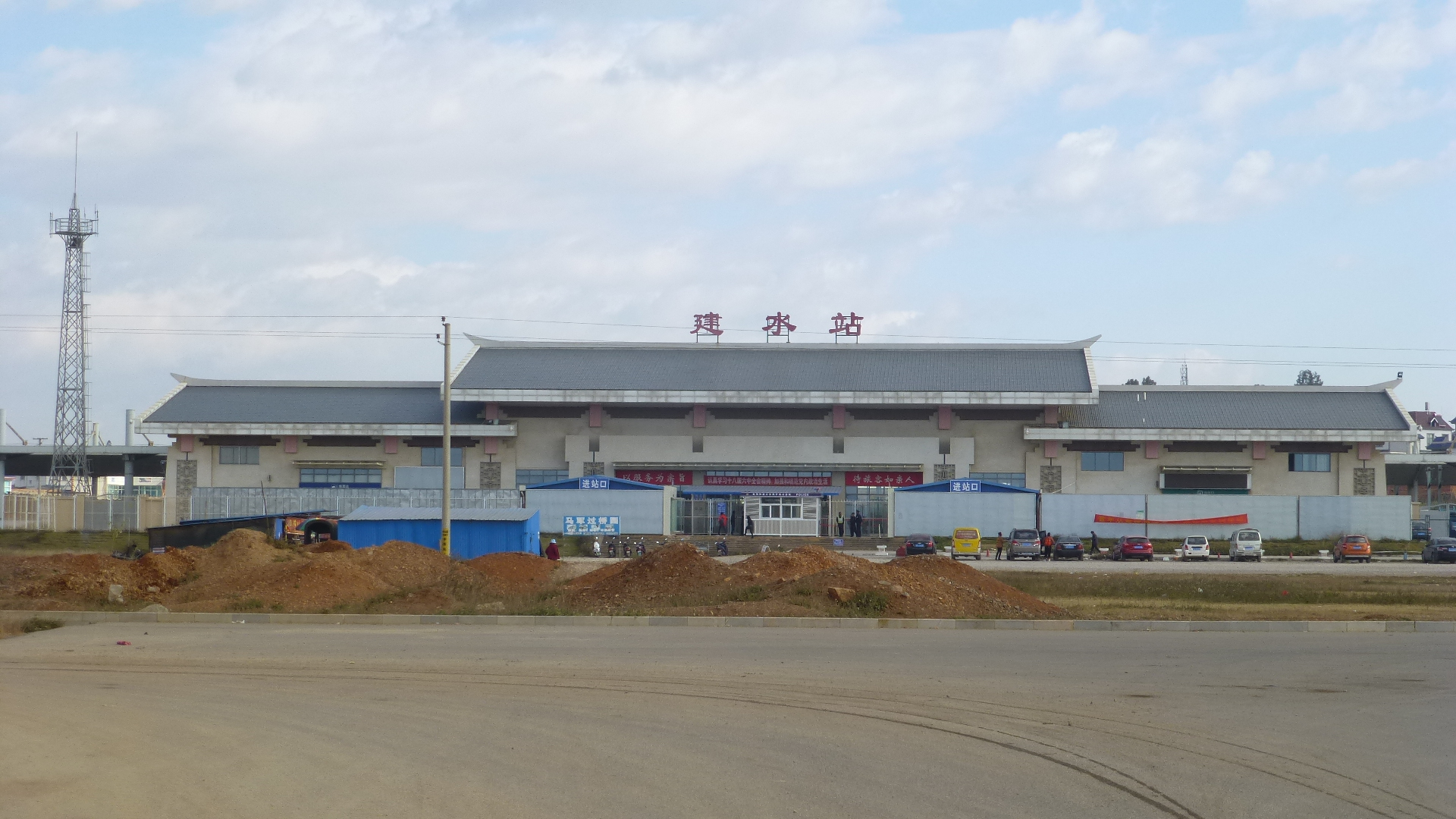 The new Jianshui Railway Station, on the Yuxi-Mengzi Railway, and its vicinity.